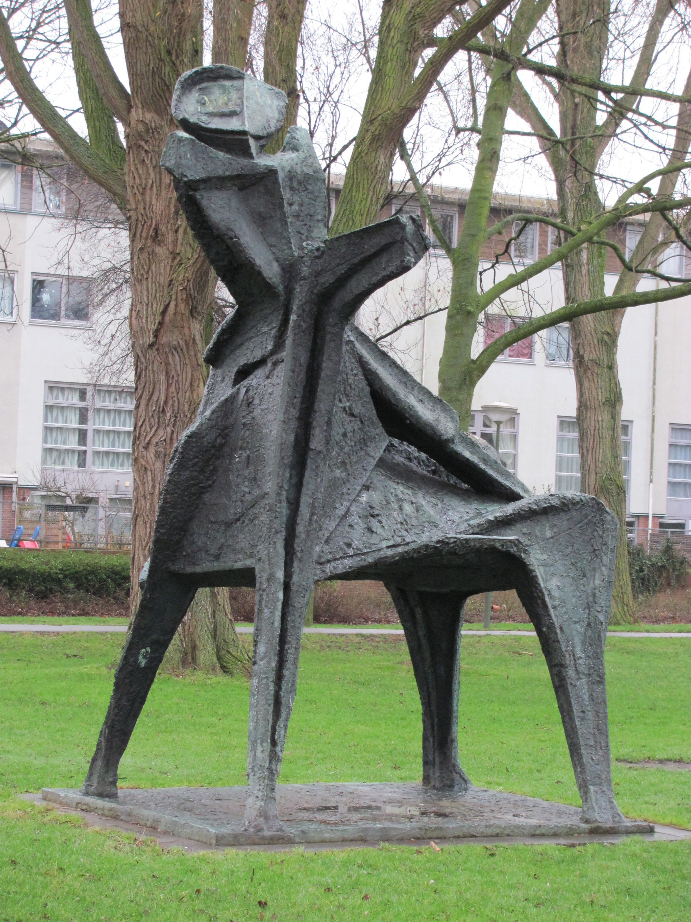 sculpture rider (arcangelo) marinipark, the hague